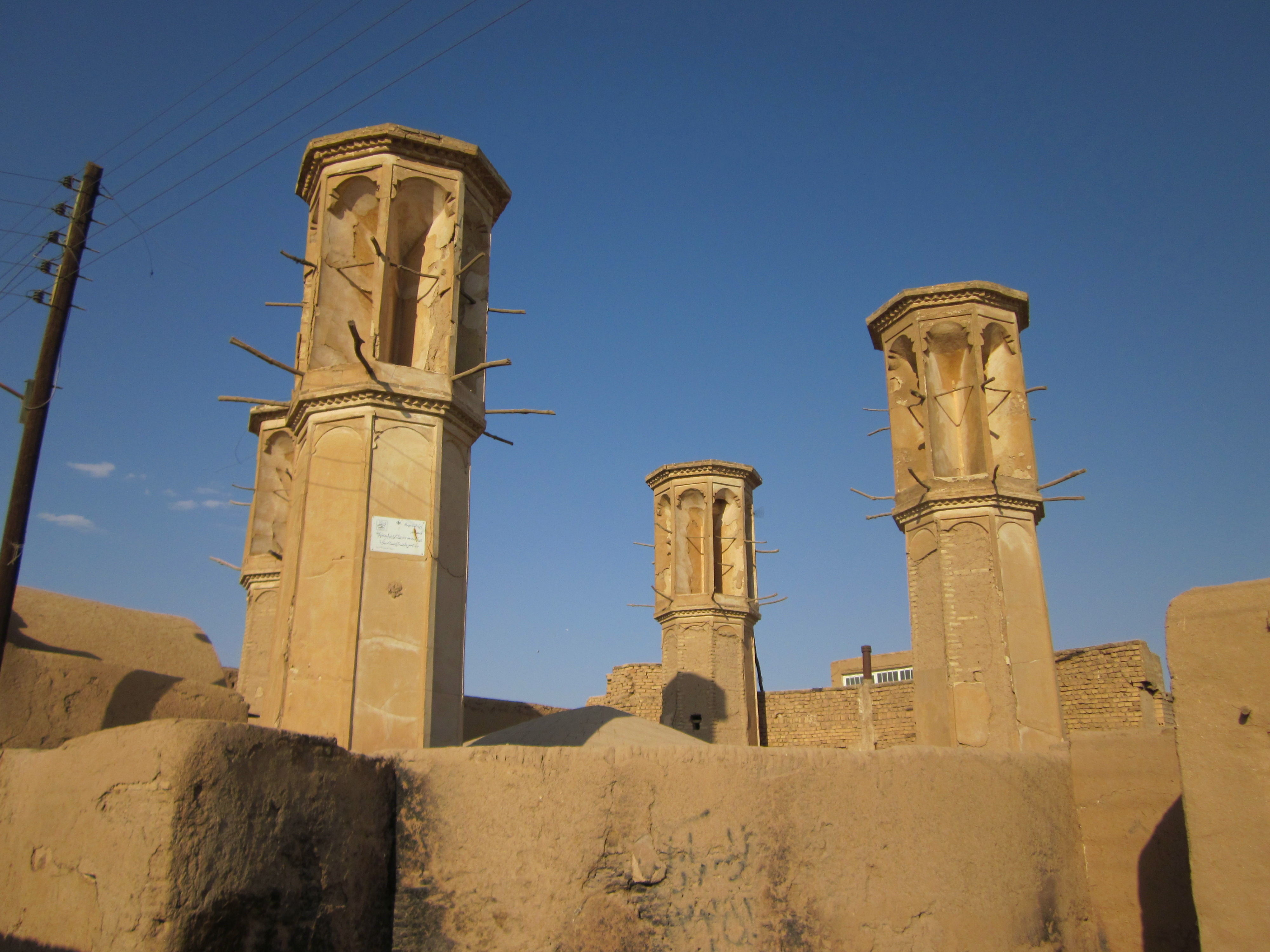 Windtowers in Yazd, Iran.